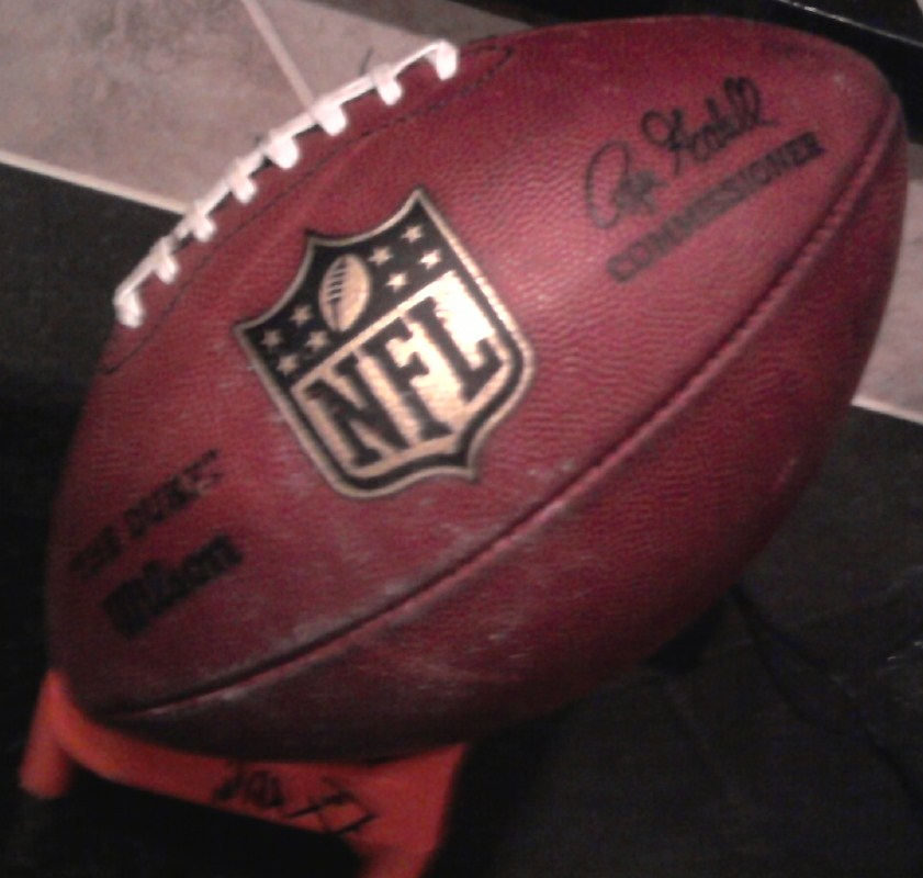 The game ball from Bucaneers v. Texans Pre-Season Game 2010